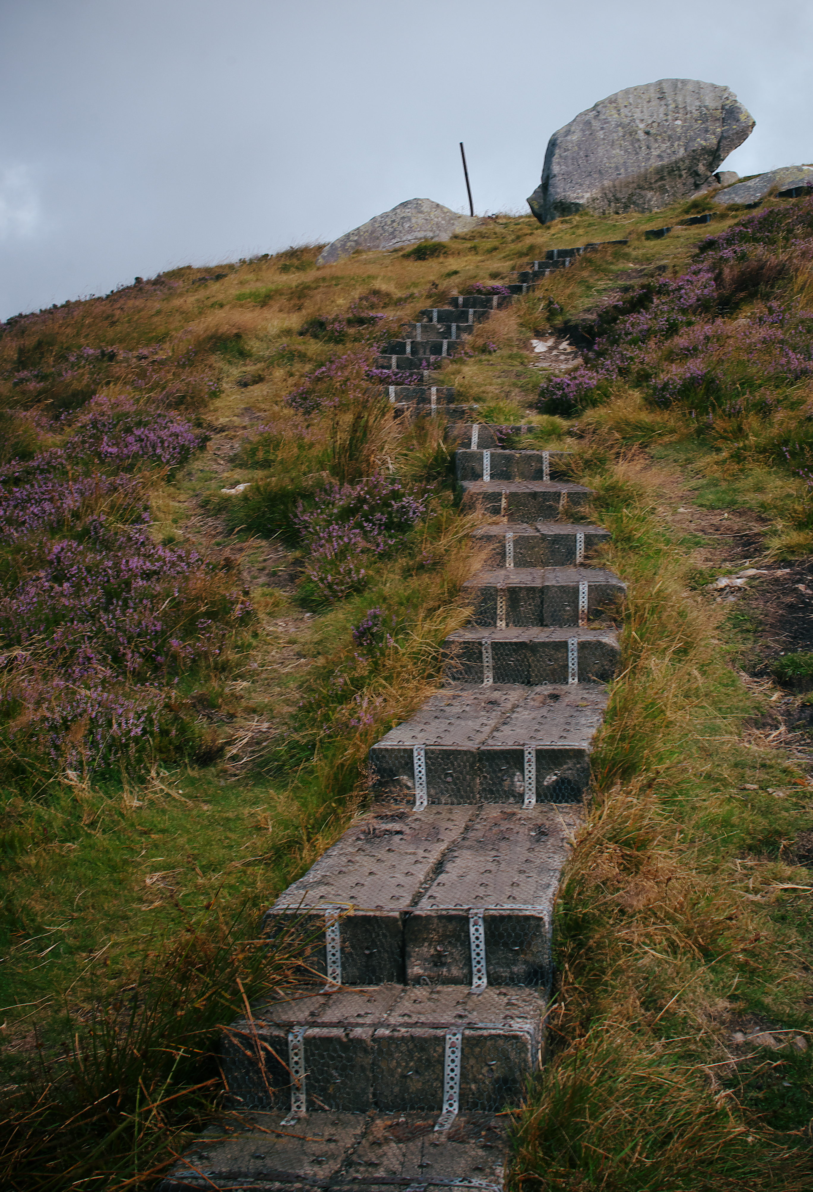 Boardwalk at the J.B. Malone memorial on Djouce Mountain in Wicklow, Ireland